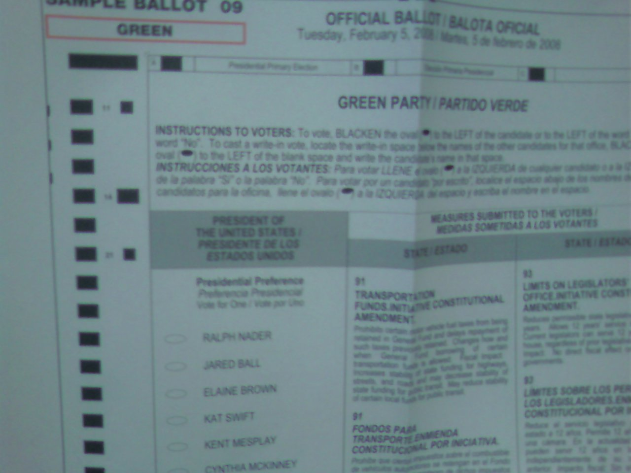 a photo of a sample ballot from richmond, california